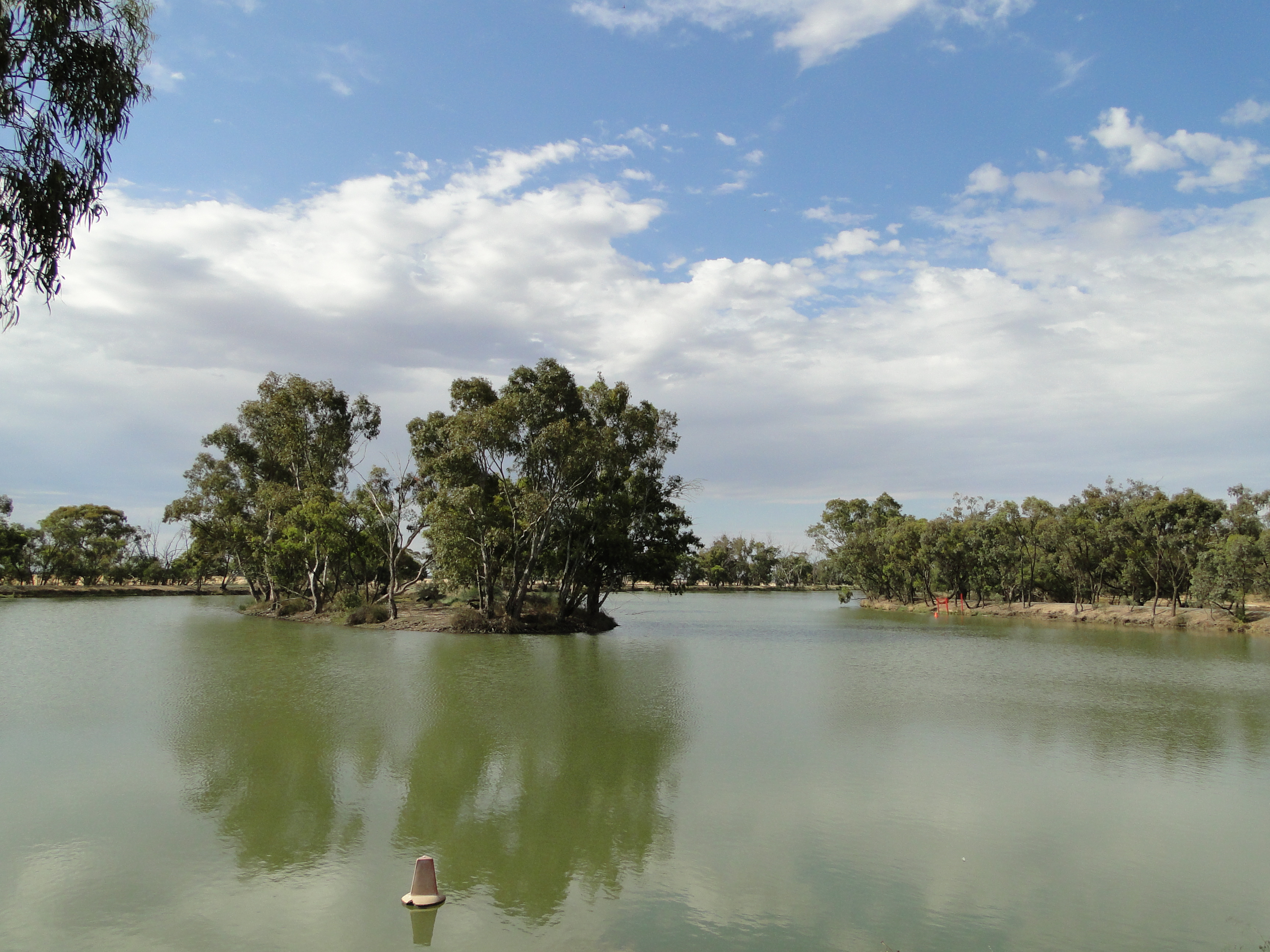 A view of the Yarriambiack Creek, at Brim, Victoria, Australia, looking north from the upstream weir.